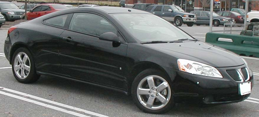 2006-2007 Pontiac G6 GT coupe photographed in USA.